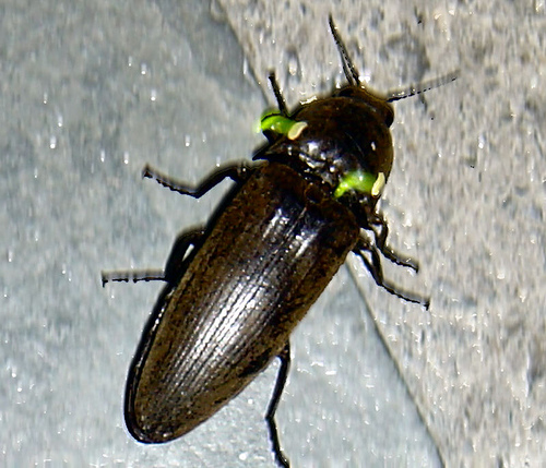 Jamaican click beetle Pyrophorus noctilucus